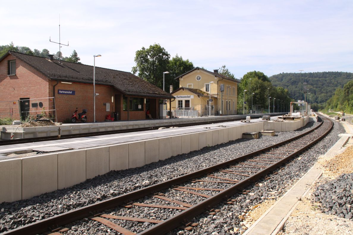 Bahnhof Hartmannshof